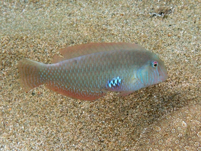 Xyrichtys novacula photographed in Paros, Greece.